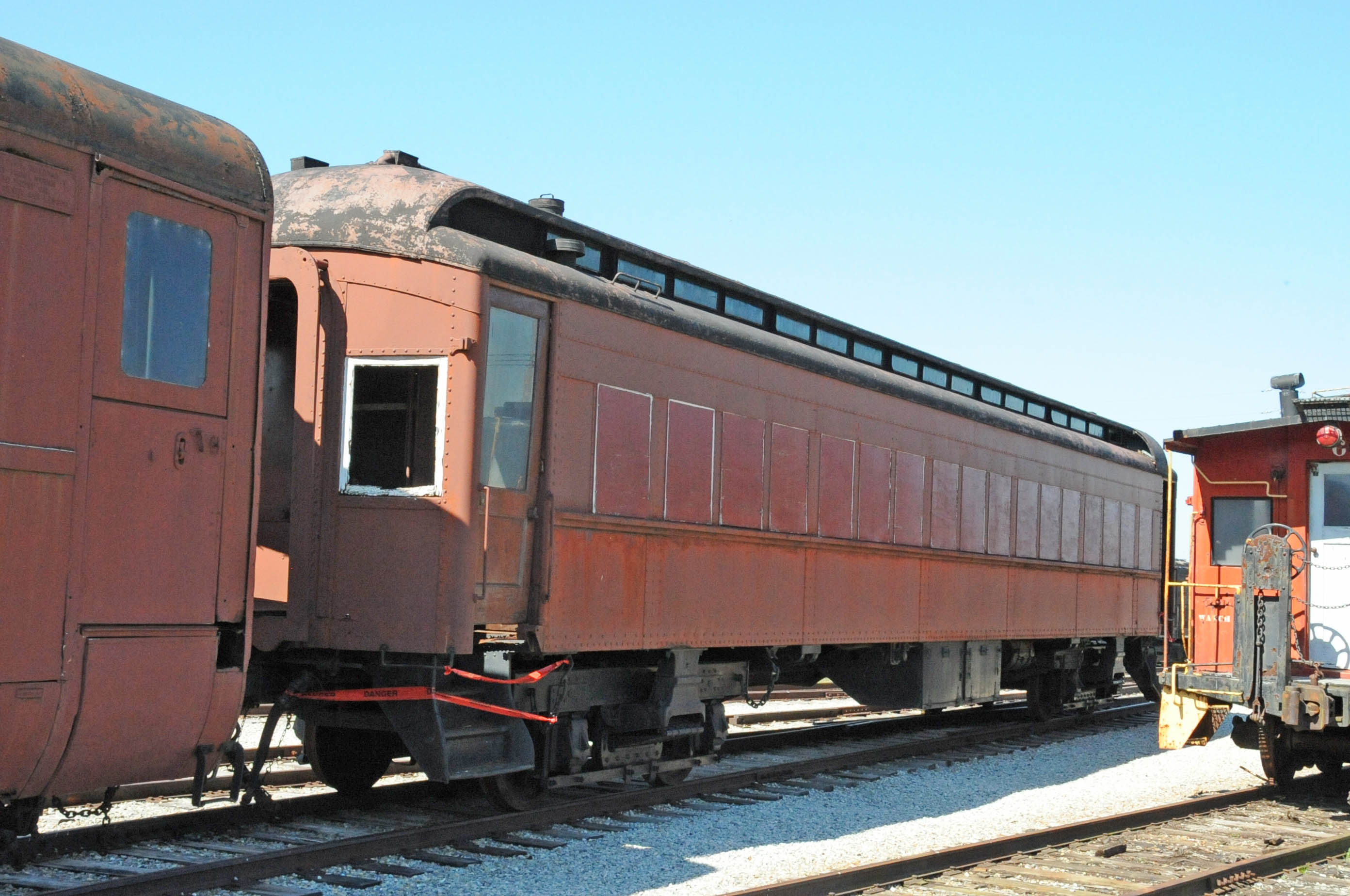 1650 BUILT IN THE JUNIATA SHOPS FOR THE PENNSYLVANIA RAILROAD IN 1908 AS AN EXPERIMENTAL COACH WHICH HAD A SEATING CAPACITY OF 64 PASSENGERS. IT WAS RETIRED IN 1938 AND WAS ON DISPLAY AT THE NEW YORK WORLD’S FAIR IN 1939-1940.